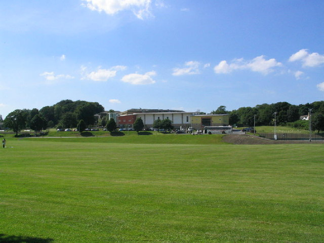 Woodhouse Grove School and sports field is situated at grid reference SE198382 on a bend of the River Aire close to Apperley Bridge between Leeds and Bradford, West Yorkshire, England.